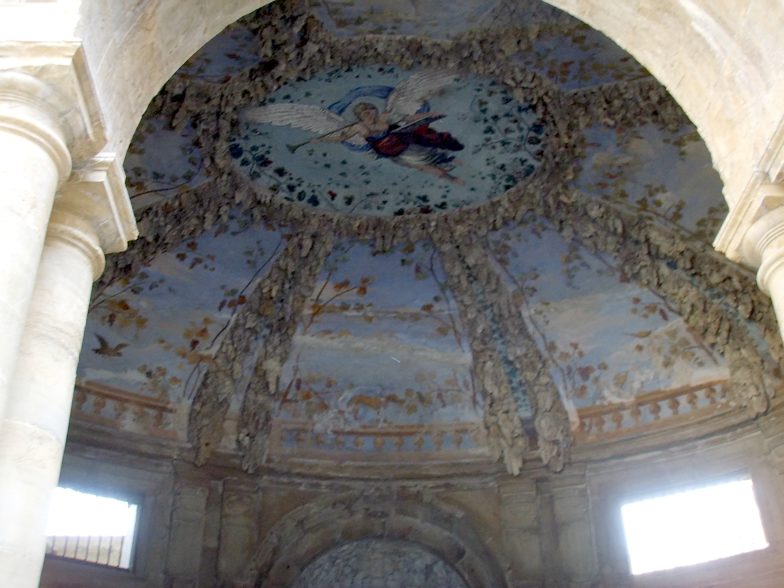 Palazzo Pitti, grotto in the main courtyard, in Florence Italy.